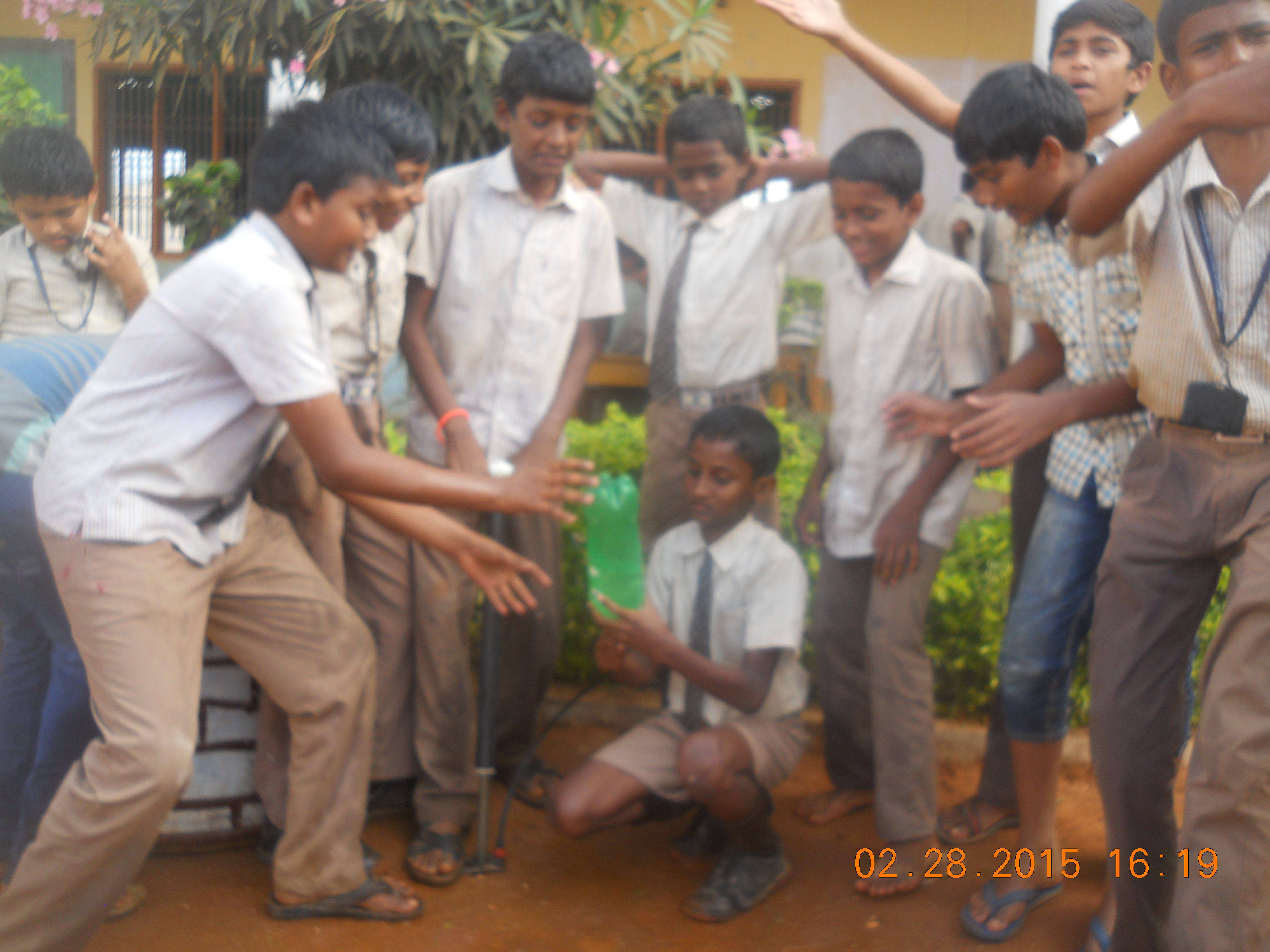 National Science Day in India